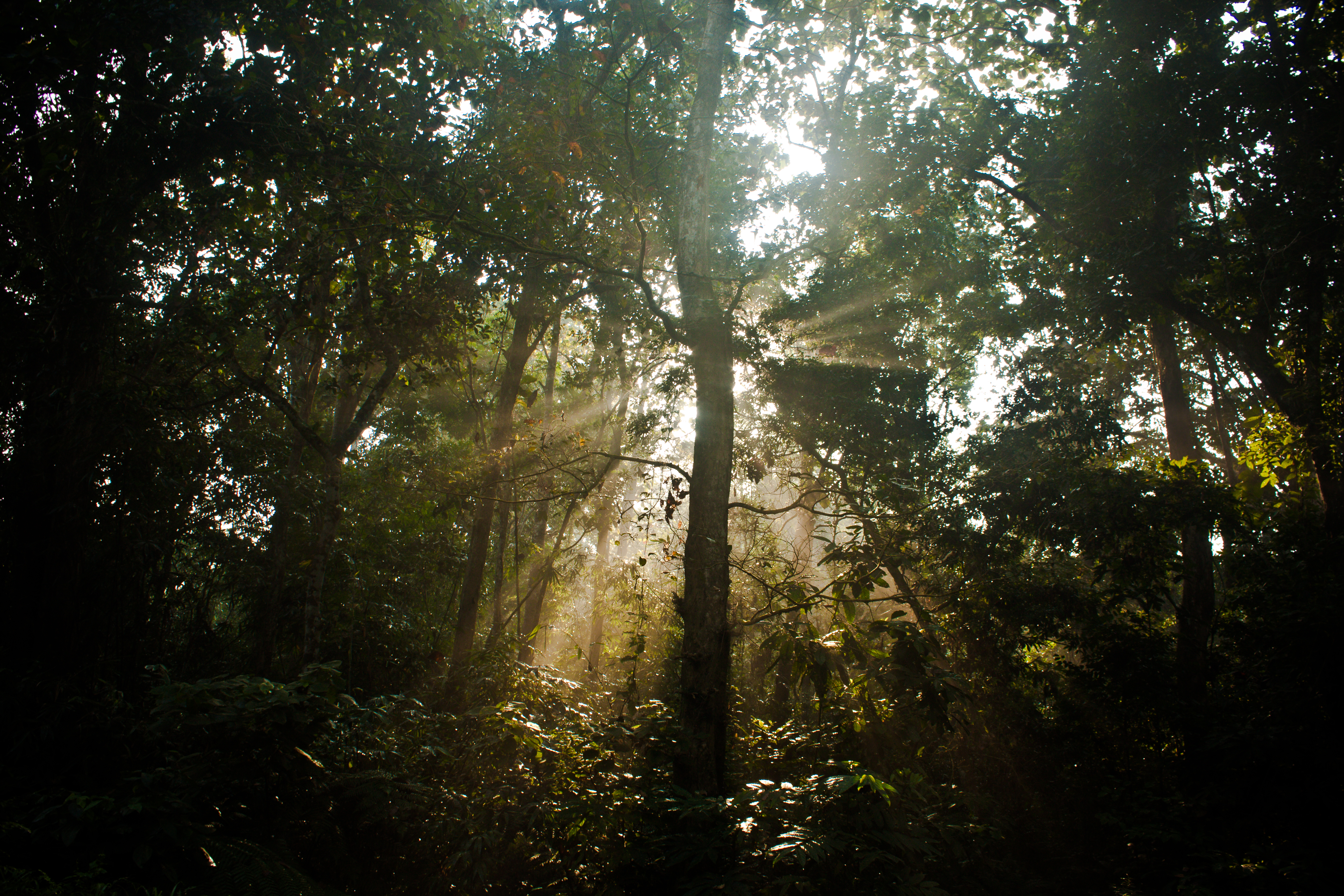 Morning at the Jungle